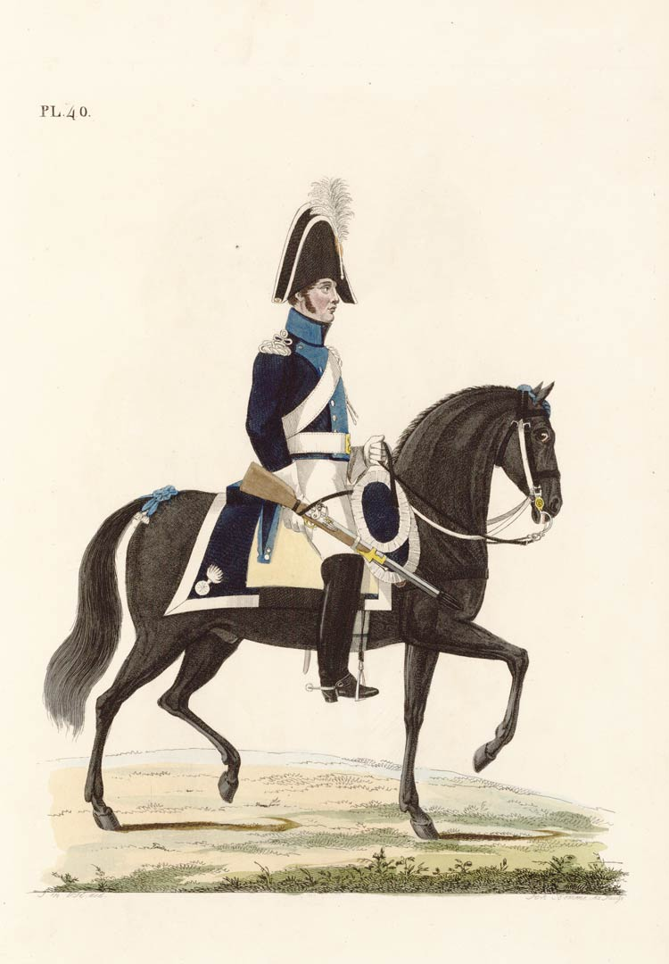 Maréchaussée, mounted, in parade dress, from: "Beschrijving hoedanig de koninklijke Nederlandsche troepen en alle in militaire betrekking staande personen gekleed, geëquipeerd en gewapend zijn [...]" by J.F. Teupken, published 1823 by Gebroeders Van Cleef.